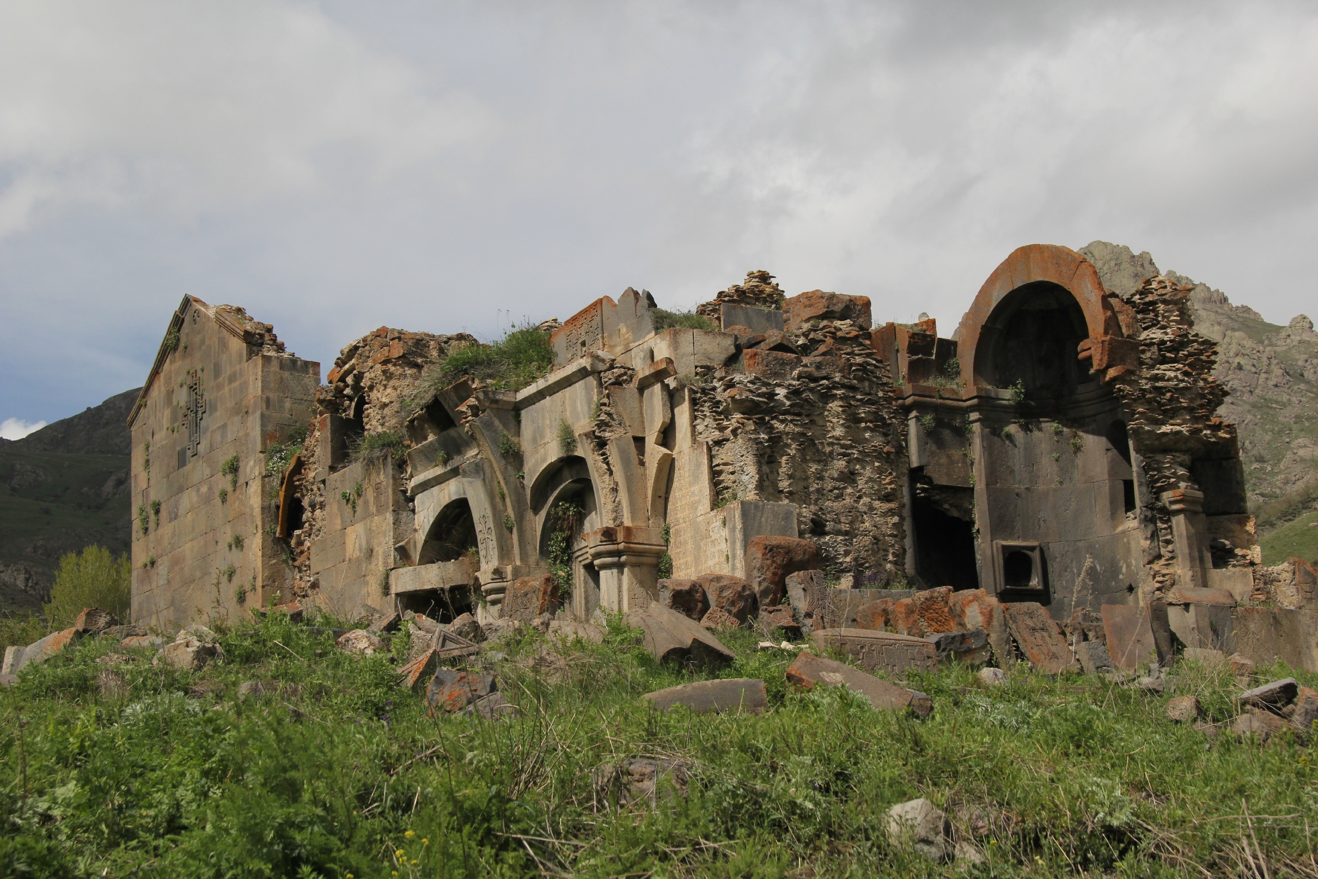 Arates_Monastery 29.1/1